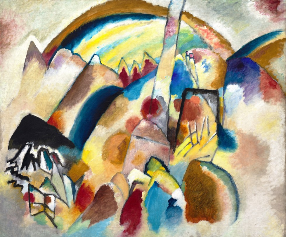 Landscape With Red Spots No 2, oil on canvas, Venice. Italy. Collezione Peggy Guggenheim.